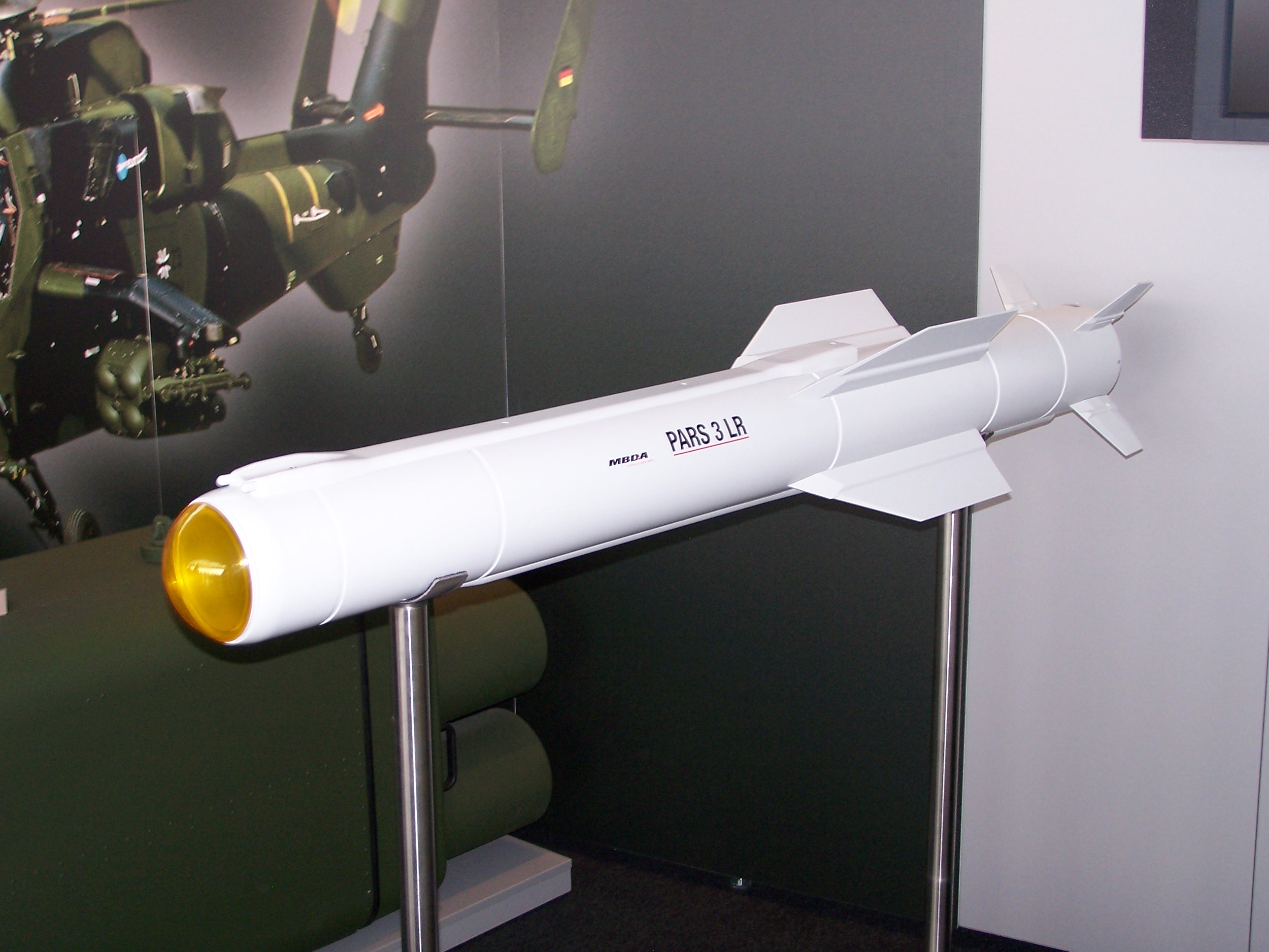 Modell am MBDA-Stand während des Tags der Offenen Tür bei den Heeresfliegern in Fritzlar am 17.08.2008